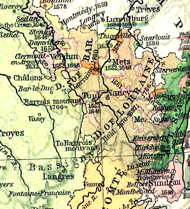 Map of the Three Bishoprics showing their annexation to Early Modern France